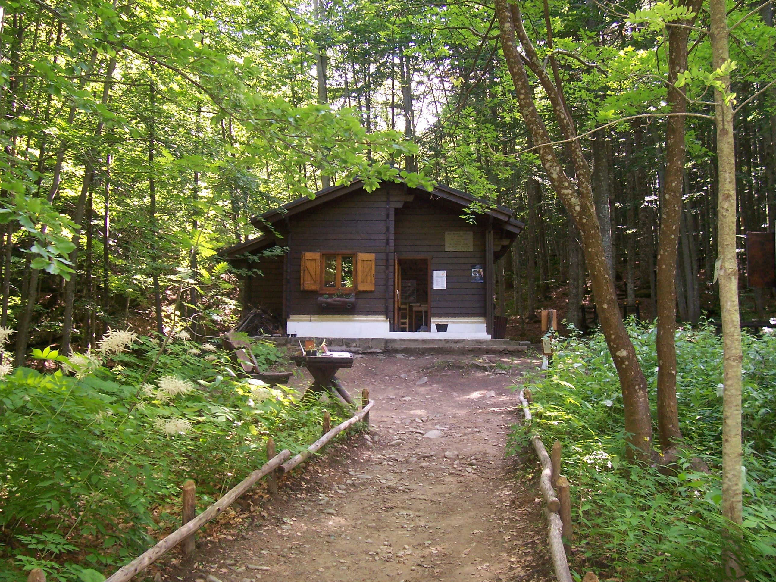 "Orto botanico forestale dell'Abetone"